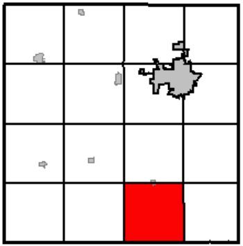 Map of Adams County, Nebraska highlighting Zero Township; created with the GIMP. Made by User:Acntx.